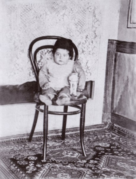 Childhood of Mikayil Mushfig